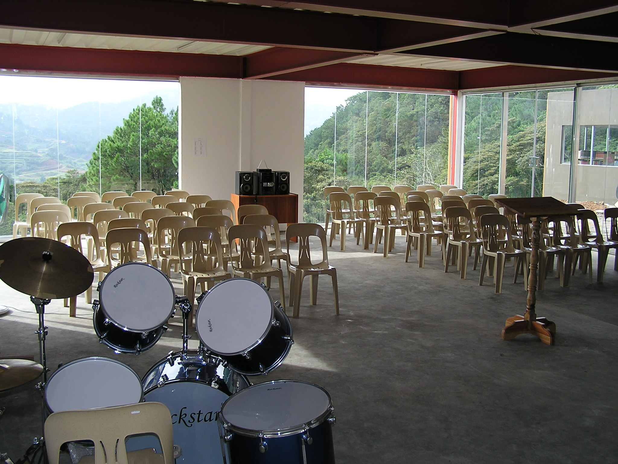 Philippine College of Ministry, Baguio City, Philippines. The chapel can accommodate up to 100 seated.